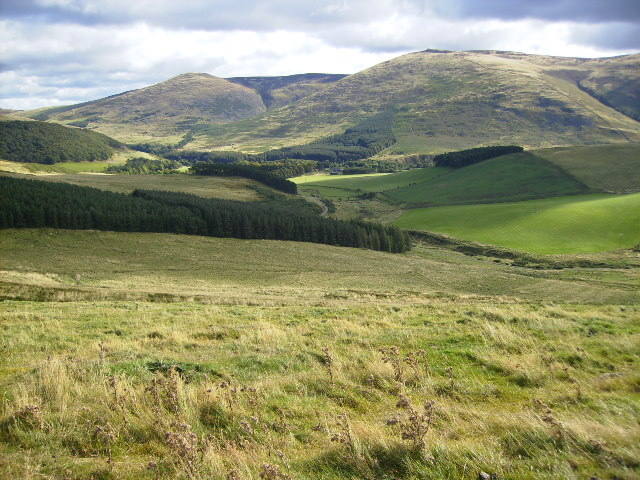 Hillside and woodland plantations west of Hethpool The Newton Tors in and around NT9127 in the Cheviot Hills can be seen beyond the valley of the College Burn.